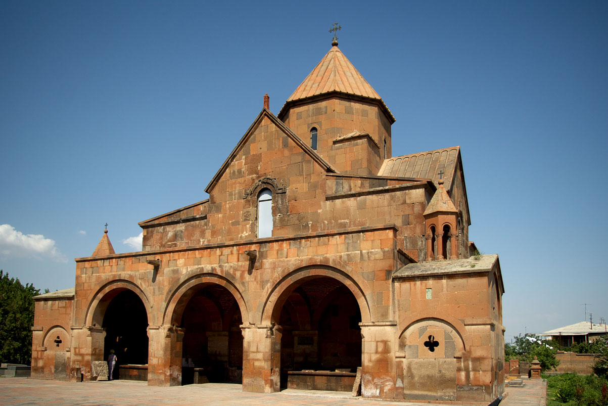 The 7th century Armenian architecture:Armenian church of Saint Gayane in Ejmiatsin, Armenia. St Gayane is on the list of UNESCO World Heritage Sites.